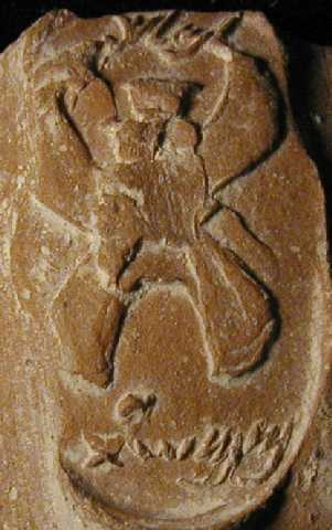 LMLK seal impression; type M4L; Redondo Beach collection #21; Dec-19-2003 Funhistory 03:29, 9 Feb 2005 (UTC)